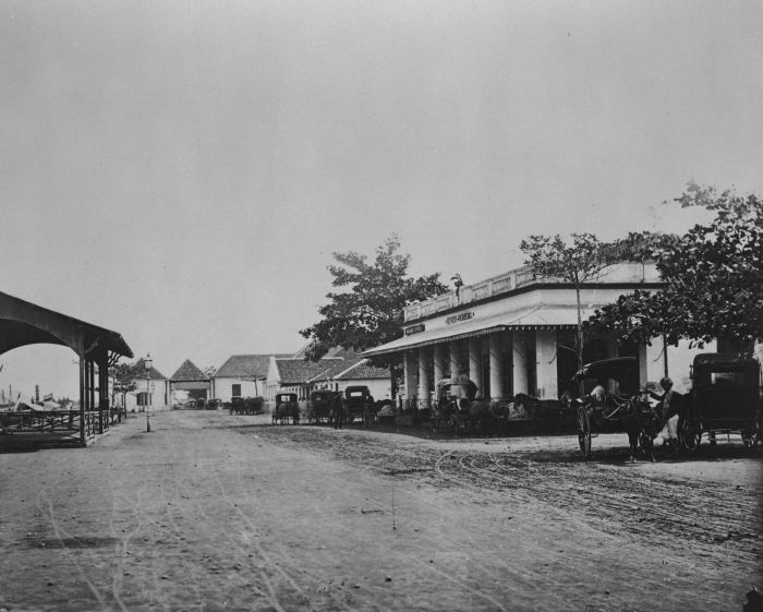 The 'Stadsherberg' and the 'Boom' in Batavia's harbour canal